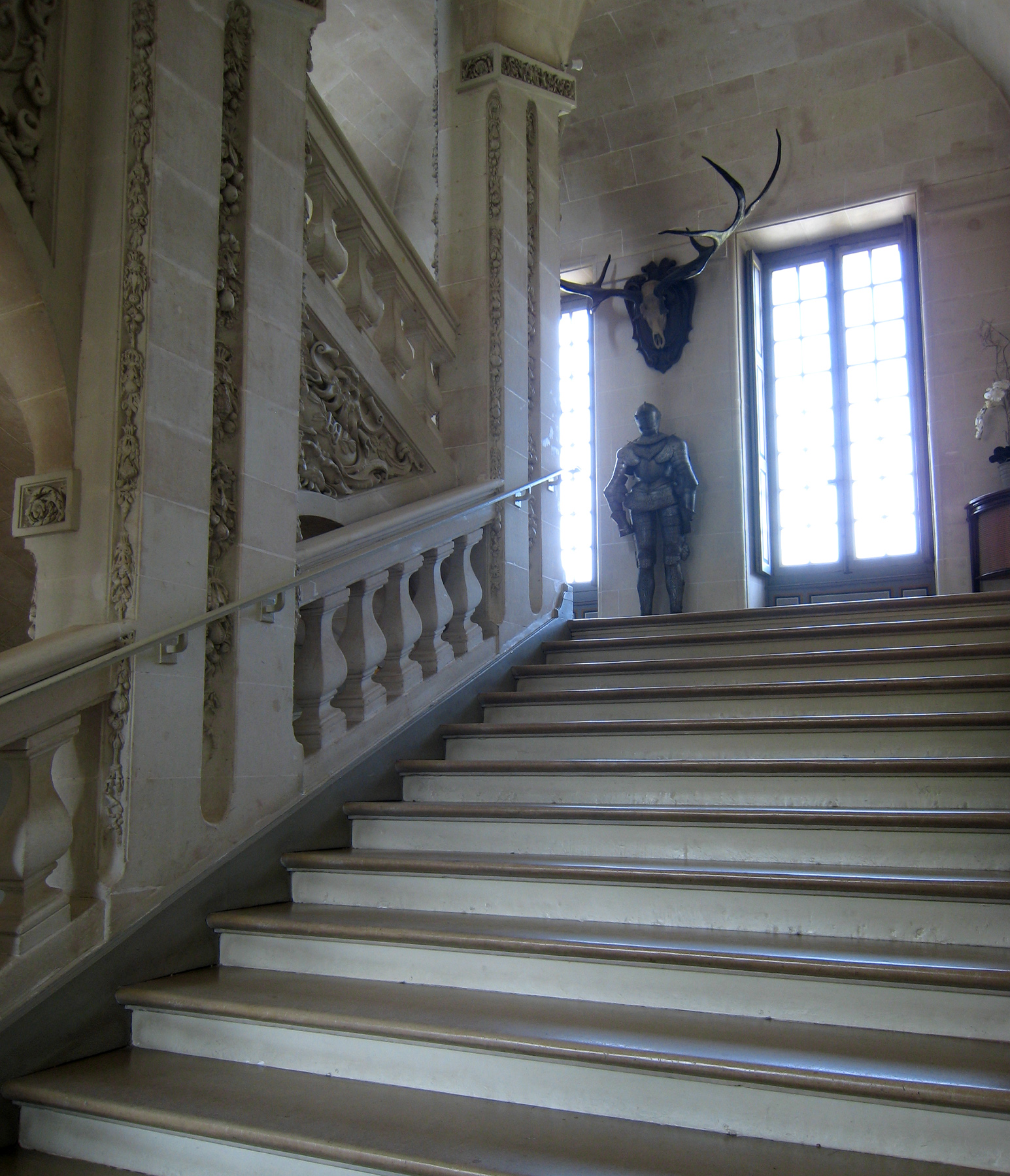 Château de Cheverny, Loir-et-Cher, France - Honorary Stairs